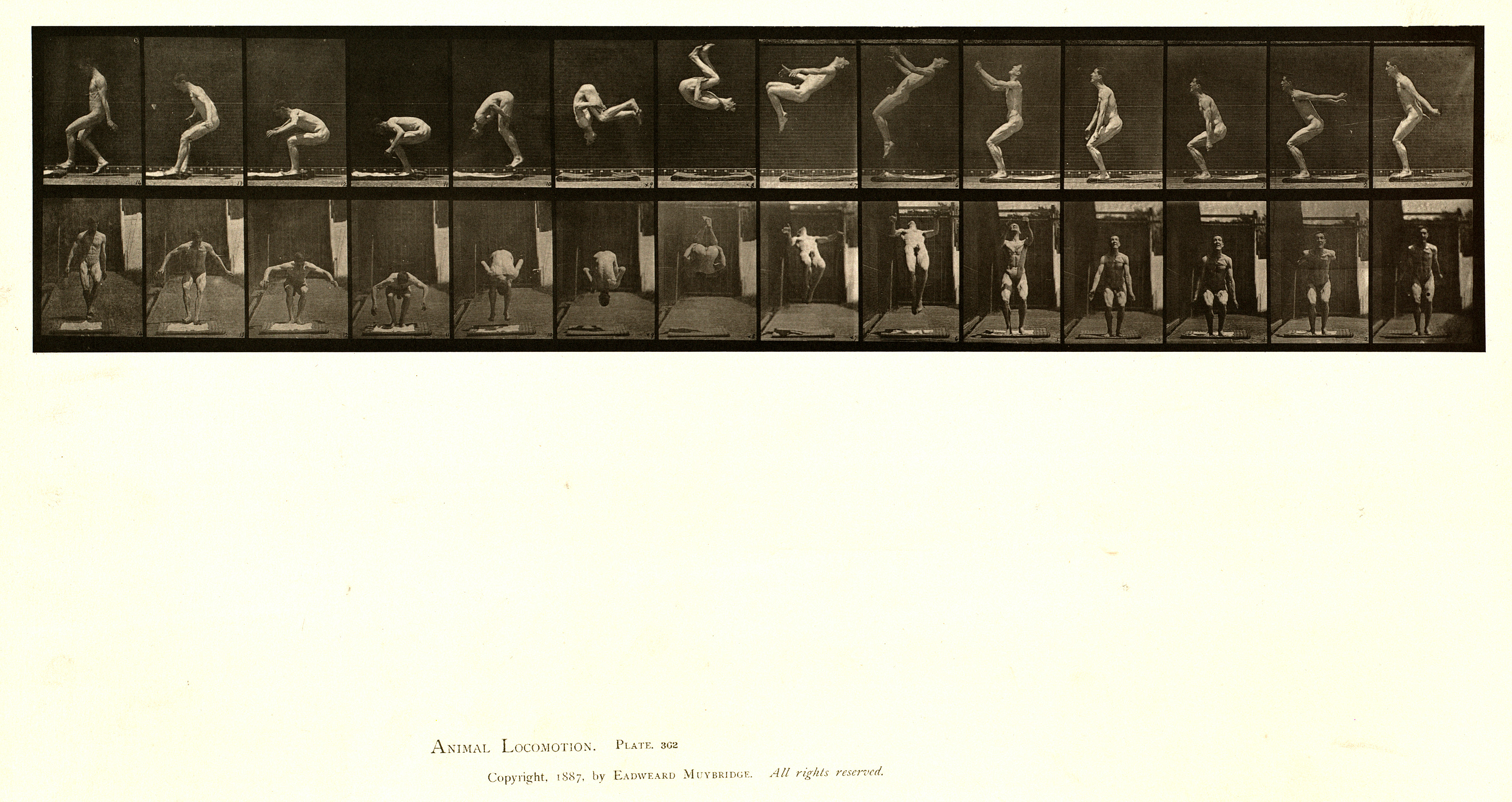 BPLDC no.: 08_11_000090 Title: Animal locomotion. Plate 362 Volume: Vol. II. : Males (nude). Creator: Muybridge, Eadweard, 1830-1904 Copyright Date: 1887 Extent: 1 photomechanical print : collotype Genre: Collotypes; Motion study photographs; Book illustrations Description: Back somersault Subject: Men; Nudes; Acrobatics; Human locomotion Notes: Plate in: Animal locomotion : an electro-photographic investigation of consecutive phases of animal movements, 1872-1885 / By Eadweard Muybridge. Philadelphia : University of Pennylvania, 1887, v. 2; Plate descriptions from: Animal locomotion : an electro-photographic investigation of consecutive phases of animal movements : prospectus and catalogue of plates / by Eadweard Muybridge. Philadelphia : Printed by J.B. Lippincott Company, 1887. BPL Department: Rare Books Department